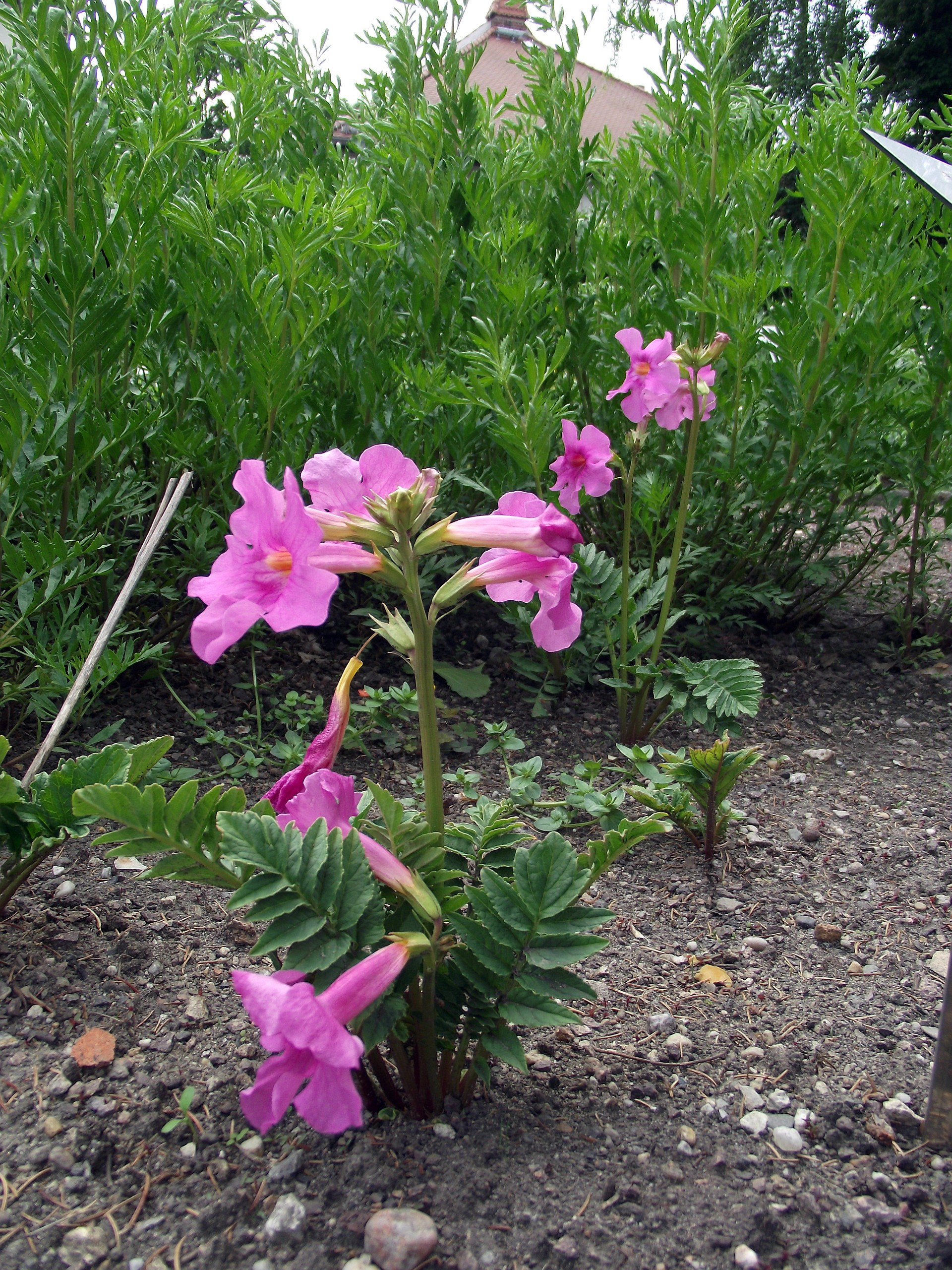 Incarvillea delavayi, Garden Gloxinia; Bignoniaceae; purple, habit